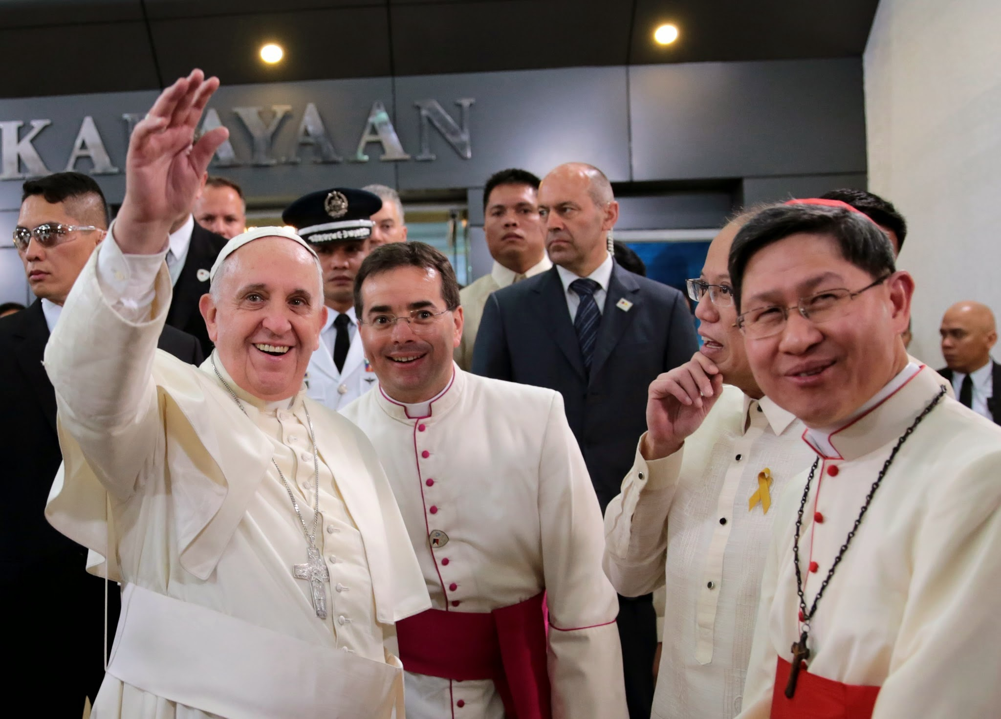 His Holiness Pope Francis with Archbishop Antonio Tagle greet members of the Papal Delegation during the arrival ceremony at the 250th PAW of the Villamor Airbase in Pasay City for the State Visit and Apostolic Journey to the Republic of the Philippines on Thursday afternoon (January 15, 2015)